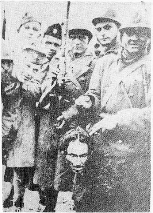 Head of Serbian orthodox priest and Croagtian soldiers